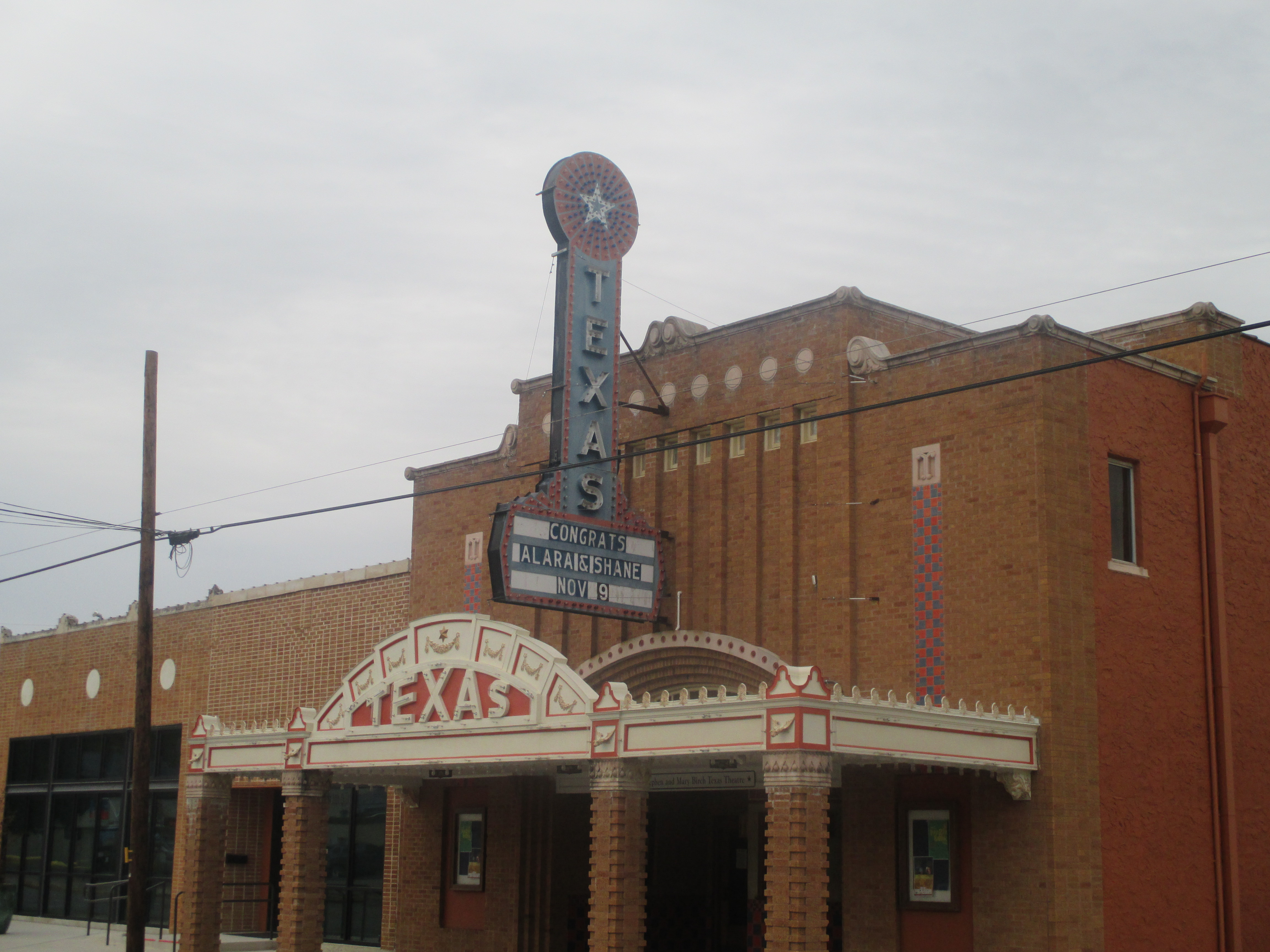 I took photo with Canon camera of Texas Theatre in Seguin, TX. Contributing structure to the Seguin Commercial Historic District on the National Register of Historic Places.